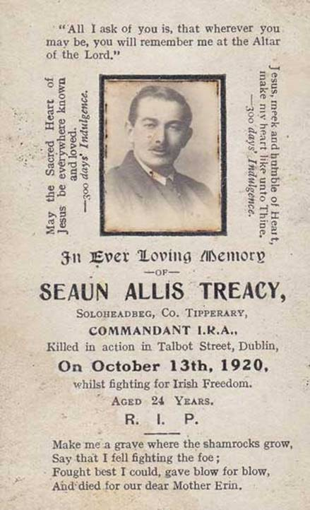 Mass card in memory of Sean Treacy